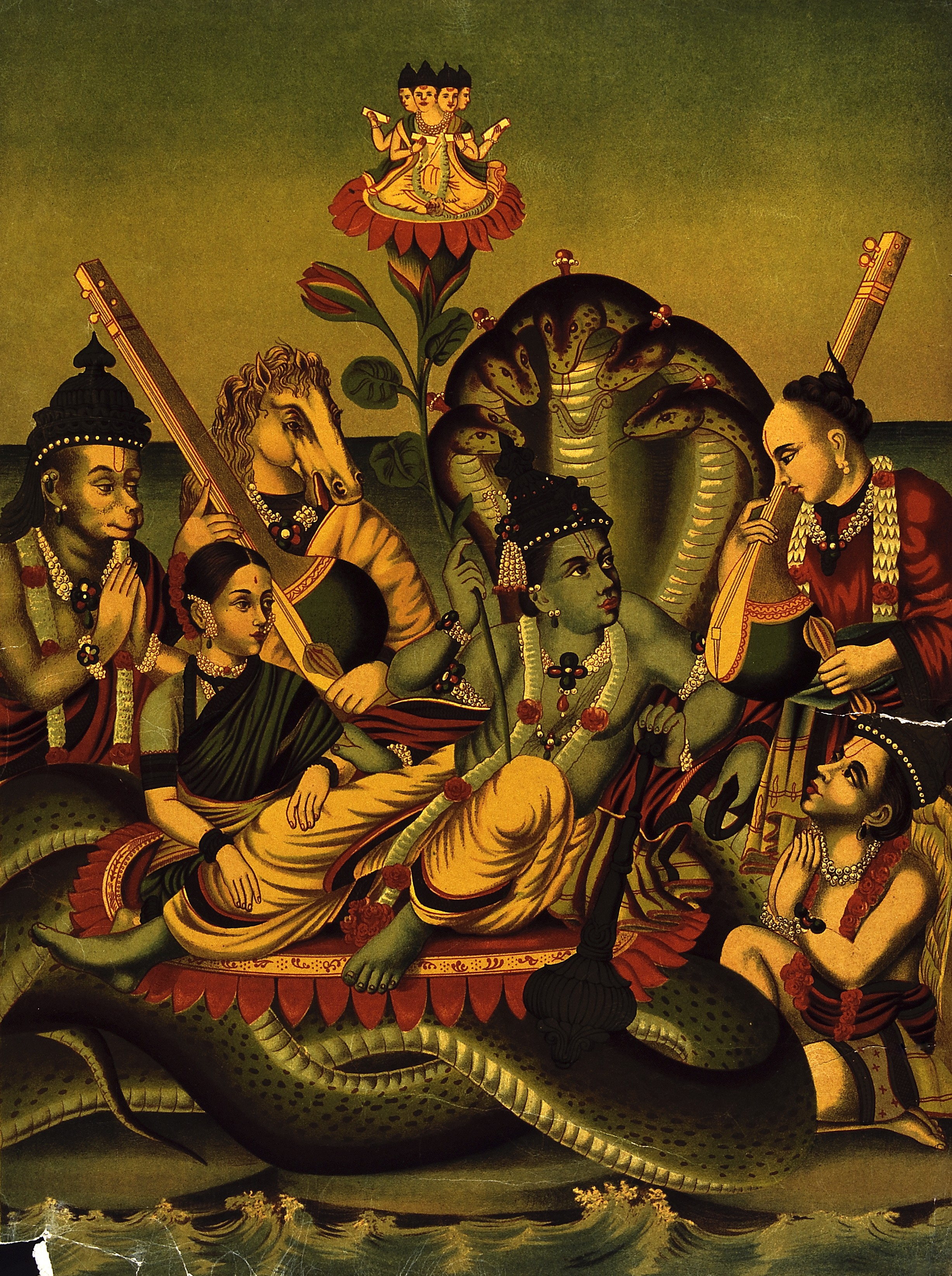 Vishnu resting on the ocean accompanied by Lakshmi, Tumbara, Hanuman, Narada, Garuda and Brahma sitting on a lotus. Chromolithograph. Iconographic Collections